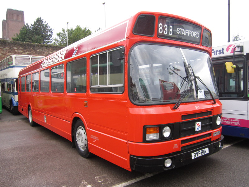 Chaserider bus at the 2011 Wirral Bus & Tram Show, Shore Road, Birkenhead, Merseyside, England.